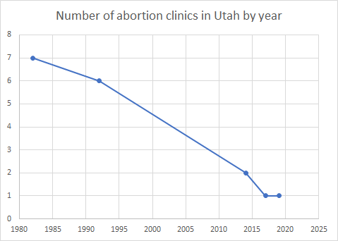 Number of abortion clinics in Utah by year. Data is from articles linked at